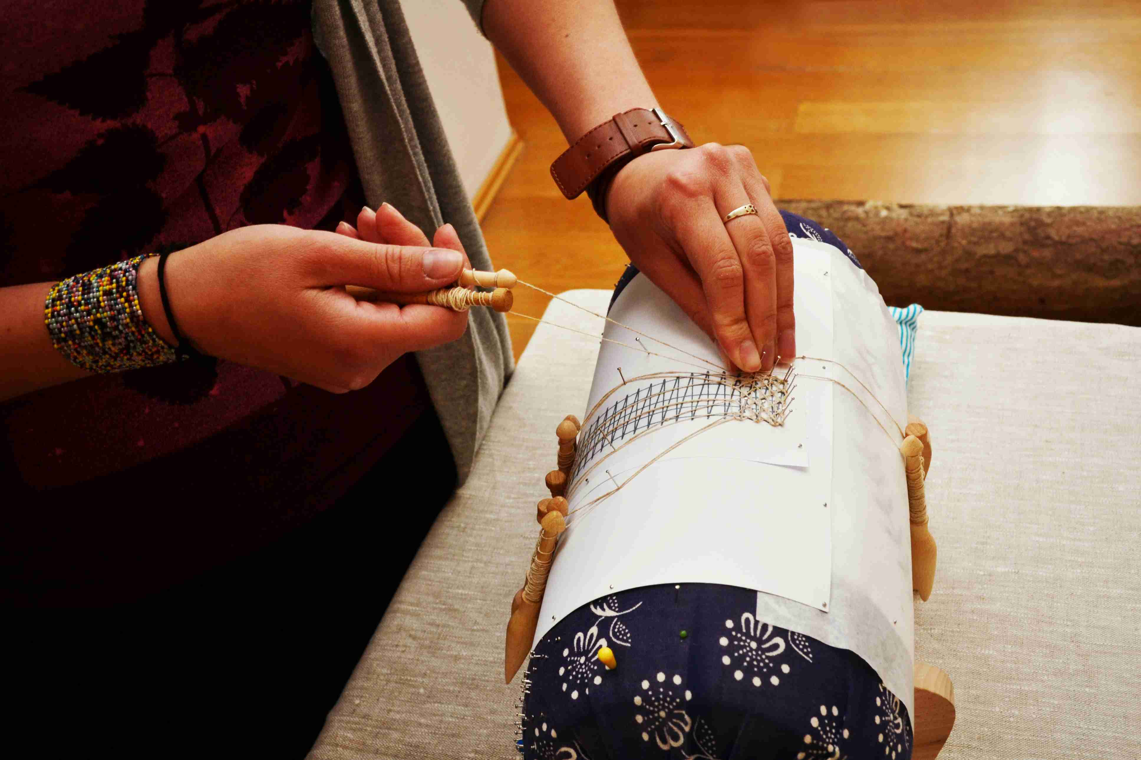 Nettle laces, Muzeum Novojičínska, p.o.